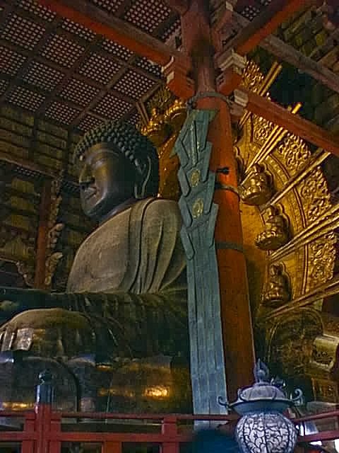 The Great Buddha at Nara (Tōdai-ji), 752 CE.